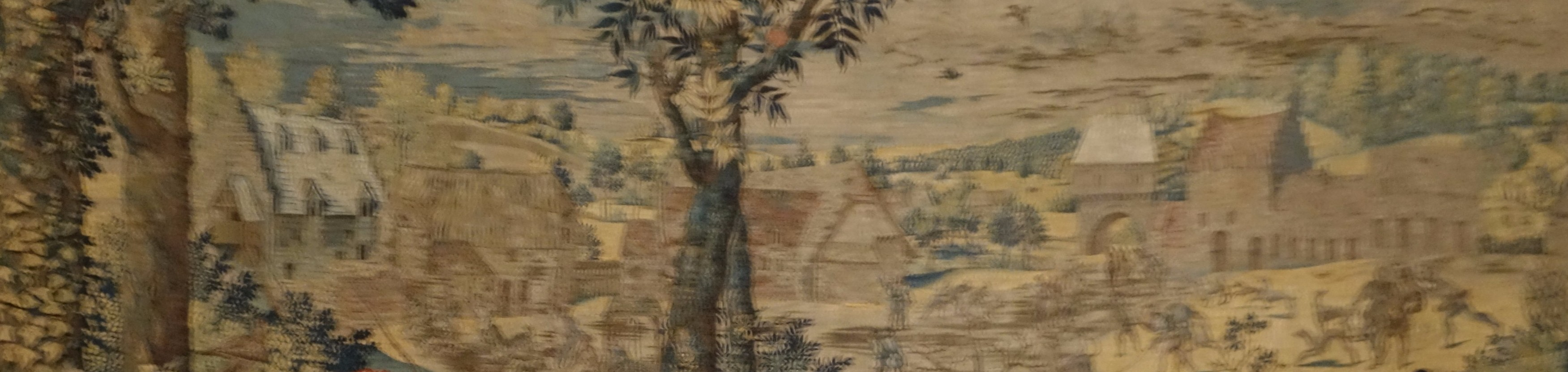 Hunt of Maximilian, Louvre